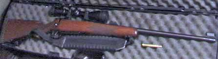 CZ-550 American Safari, shown with Leupold VX-2 3-9 x 40mm scope and a 300 grain .375 H&H Magnum round.